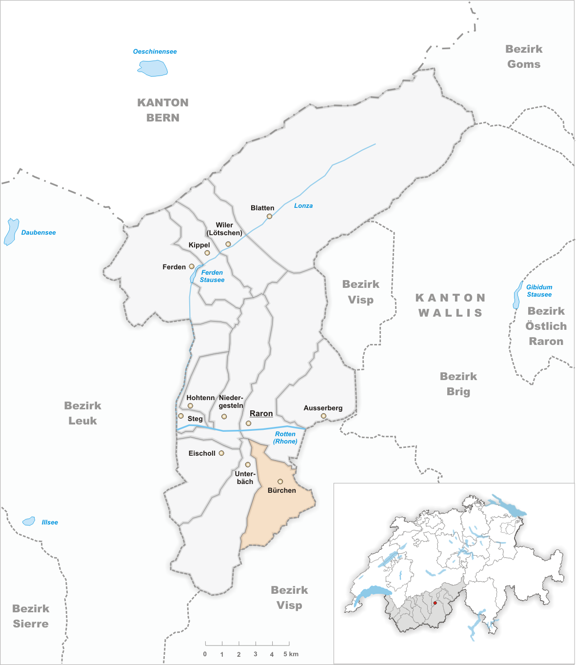 Municipality Bürchen